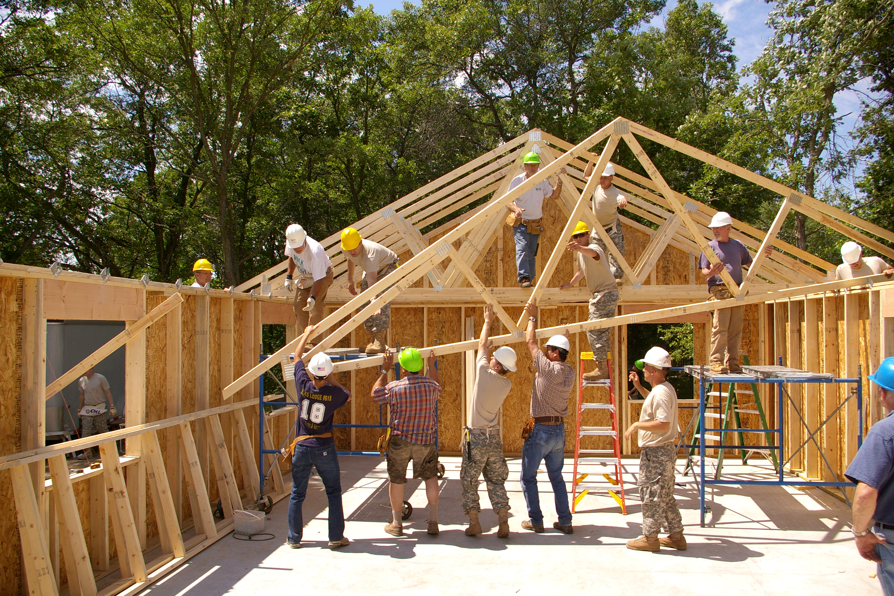 U.S. Army soldiers, along with volunteers from the community, install roof trusses for a Habitat for Humanity home in Brainerd, Minn., July 13, 2010.